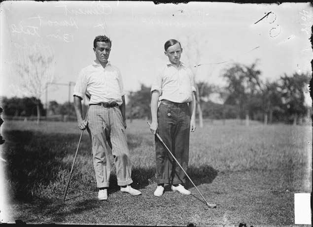 Golfers Clement Smoot (left) and Edward Cummins (right).